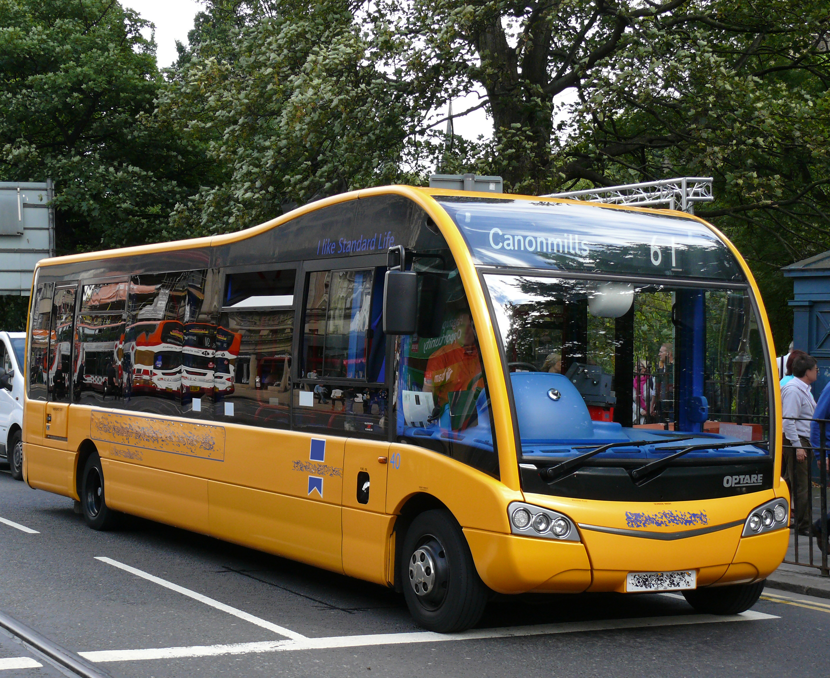 Lothian Buses bus 40 (reg. SN08 BZC), a 2008 Optare Solo SR midibus, wearing the yellow livery for route 61, and pictured heading west near the end of Princes Street, Edinburgh. Operated by the Mac Tours Ltd subsidiary, the 61 is a limited stop shuttle service stopping at three Standard Life offices in the city. The Police box at the top of the Princes Street Gardens steps can be seen to the right.